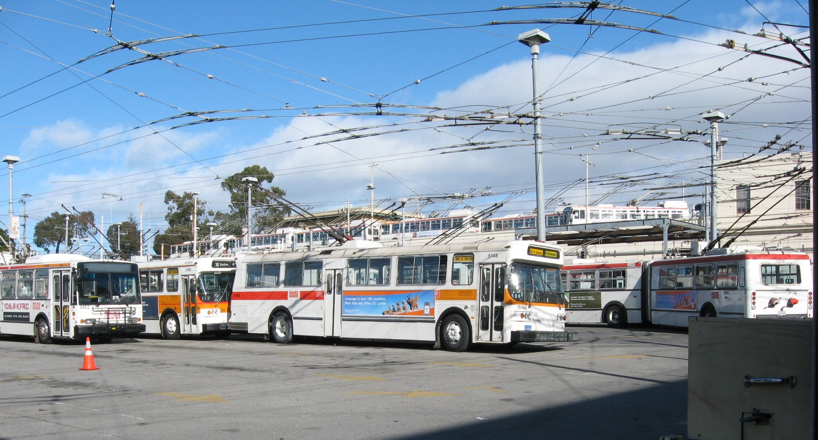 Trolleybuses in San Francisco's Potrero Division (garage) with buses ranging from 1976 to 2003. The vehicle at the far left (5453) is a 2002 ETI 14TrSF, the two in the center (5300 & 5148) are Flyer E800s of 1976, and the articulated trolleybus on the right (7019) is a 1993 New Flyer E60. There are several more ETI 14TrSF trolleybuses on the upper level, in the background.